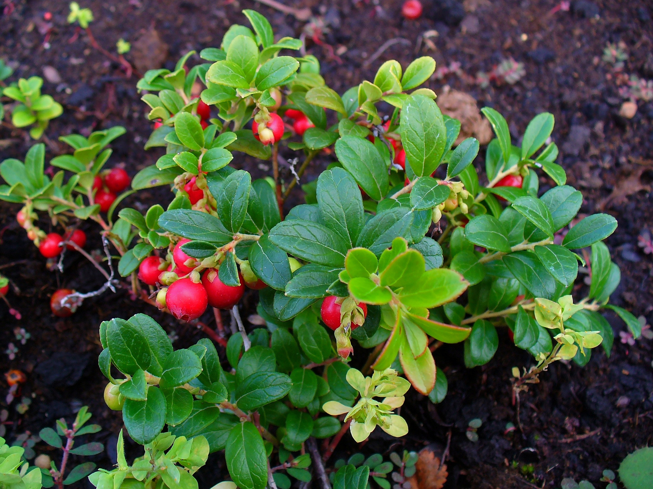 Vaccinium vitis-idaea, Ericaceae, Cowberry, Lingonberry, fruits. Botanical Garden KIT, Karlsruhe, Germany.